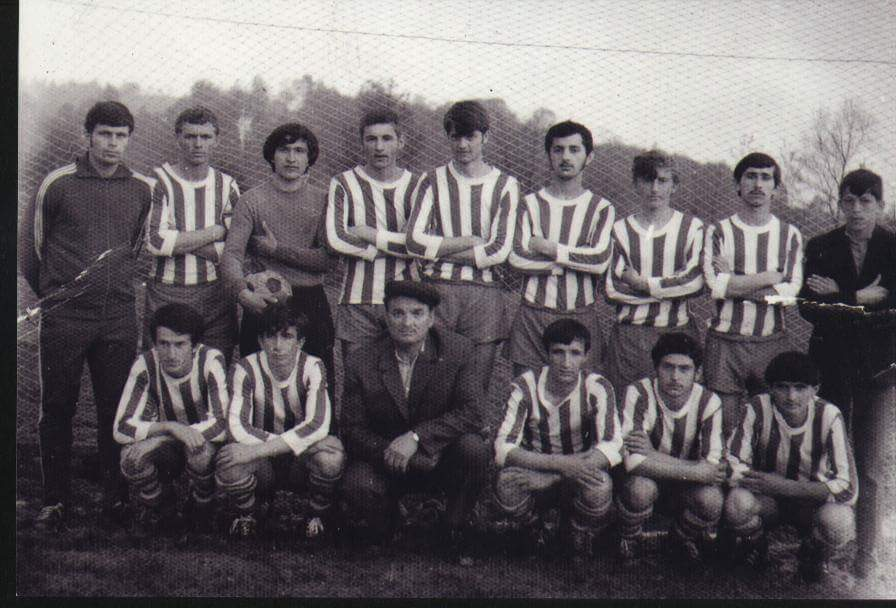 FK Ljubić 1969-1970 of Prnjavor, Bosnia and Herzegovina.